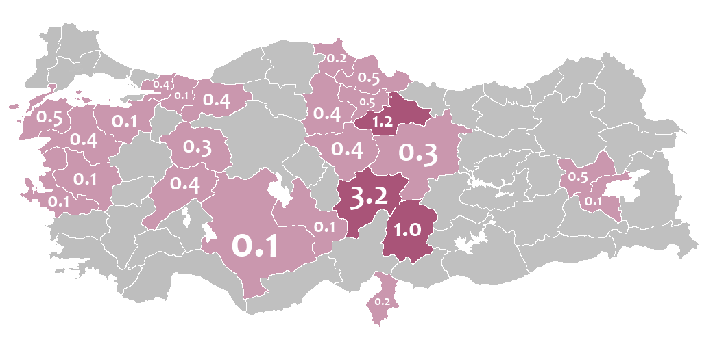 This map shows the distribution of people who spoke Circassian languages (Adyghe, Kabardian etc.) in 1965's Turkey.